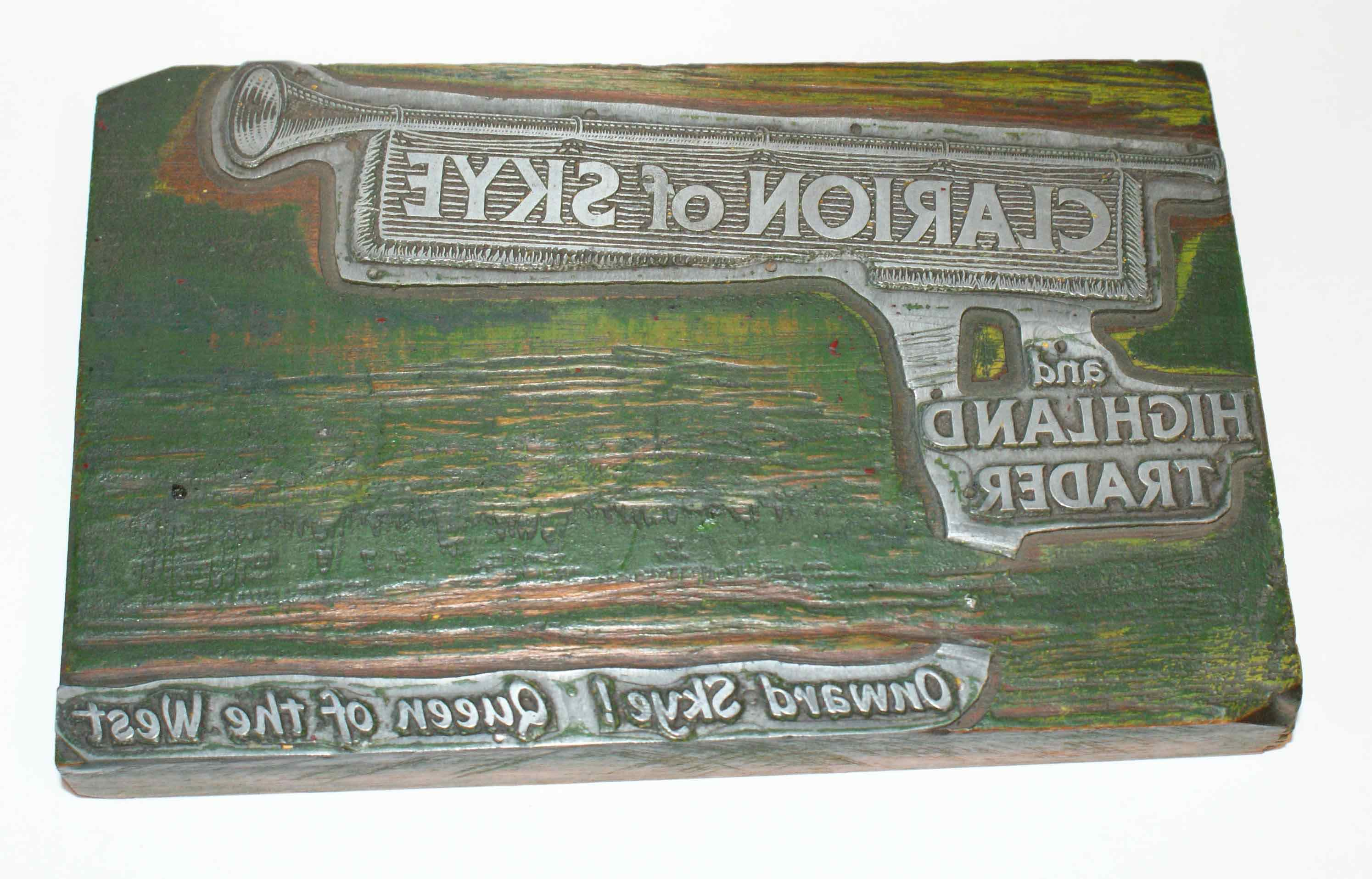 Wooden block with metal printing plate depicting logo 'Clarion of Skye and Highland Trader:- Onward Skye! Queen of the West'. Accession Number: hh.4748.27.88 The Clarion of Skye was a monthly newspaper. This was published on the third Friday of the month and edited by Alexander Nicolson from his shop at Struan. He wanted to encourage the people of Skye to make best of the opportunities of their birthplace. As the cover byline proudly read: Onward Skye! Queen of the West. With a circulation eventually reaching a thousand or so as well as the local island sales many copies went out by post each month to 'exiles' and other interested persons around the world. Predating the 1972 birth of the West Highland Free Press in Broadford by some twenty years, The Clarion ran from February 1951 until March 1957, when the illness of the editor brought its run to an end. Used at Holmes McDougall, Edinburgh. Holmes McDougall were educational publishers based at 137 - 141 Leith Walk, Edinburgh. Edinburgh City of Print is a joint project between City of Edinburgh Museums and the Scottish Archive of Print and Publishing History Records (SAPPHIRE). The project aims to catalogue and make accessible the wealth of printing collections held by City of Edinburgh Museums. For more information about the project please visit